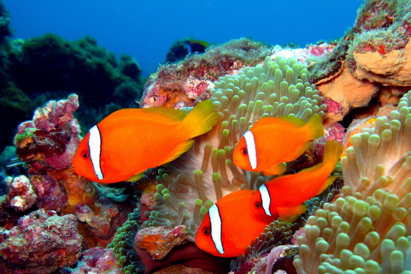 The Tomato clownfish (Amphiprion frenatus) was found in the shallow water reef area of Green Island, a famous diving site located at 21 miles away from southeast coast of TAIWAN. This photo was taken by Vincent. c. Chen on Nov. 19th, 2011.